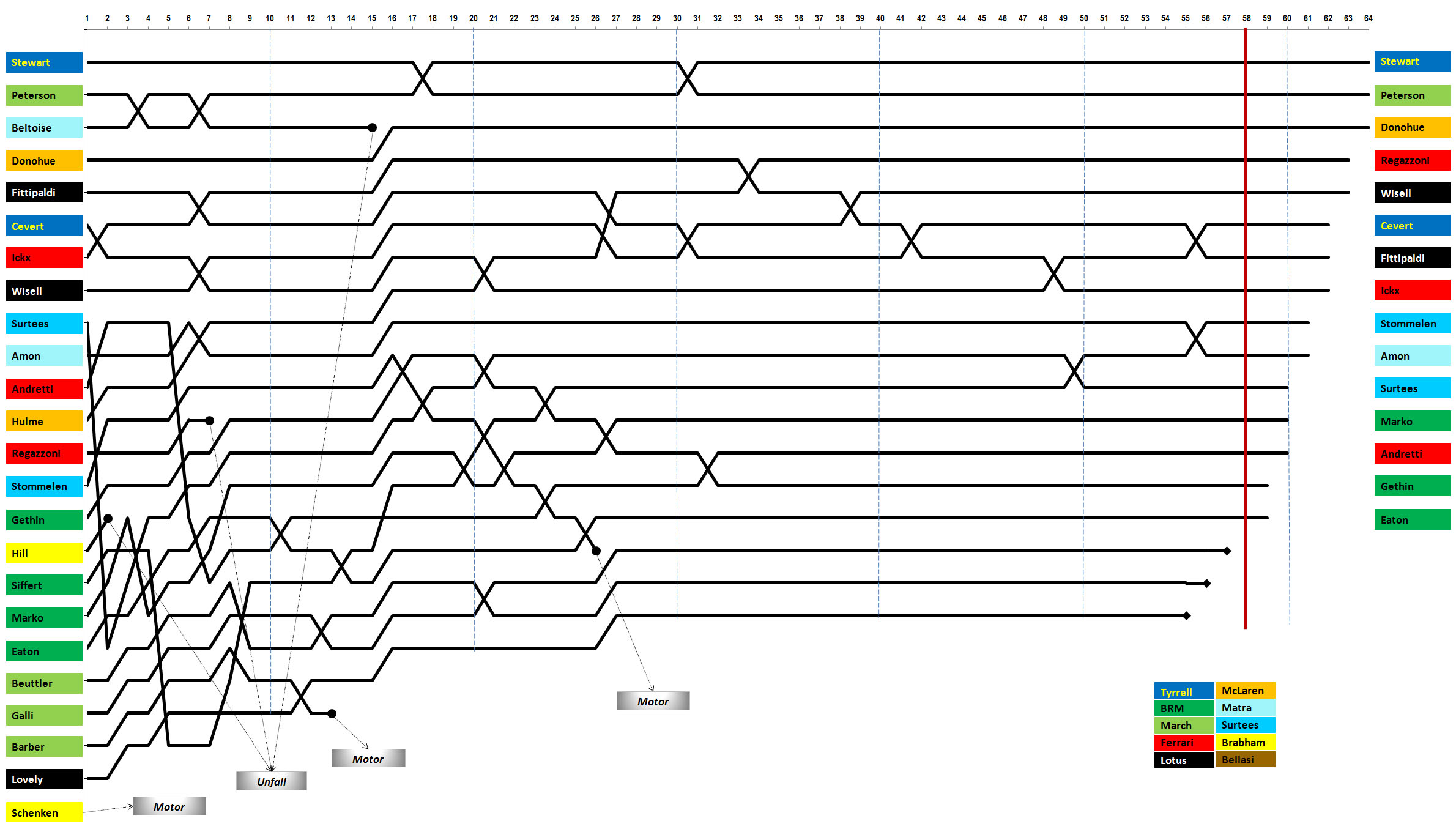 Round table canadien Grand Prix 1971